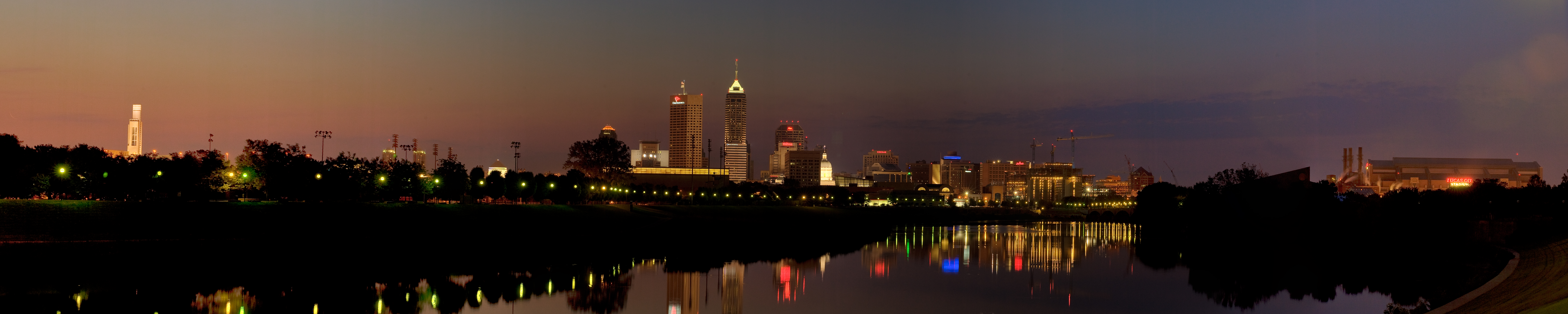 My final Pano HDR experiment using the Indianapolis Downtown Skyline as the subject. Click here for the full size version